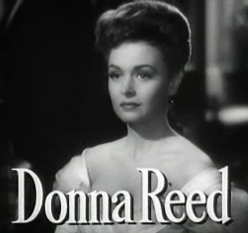 Cropped screenshot of Donna Reed from the trailer for the film The Picture of Dorian Gray.